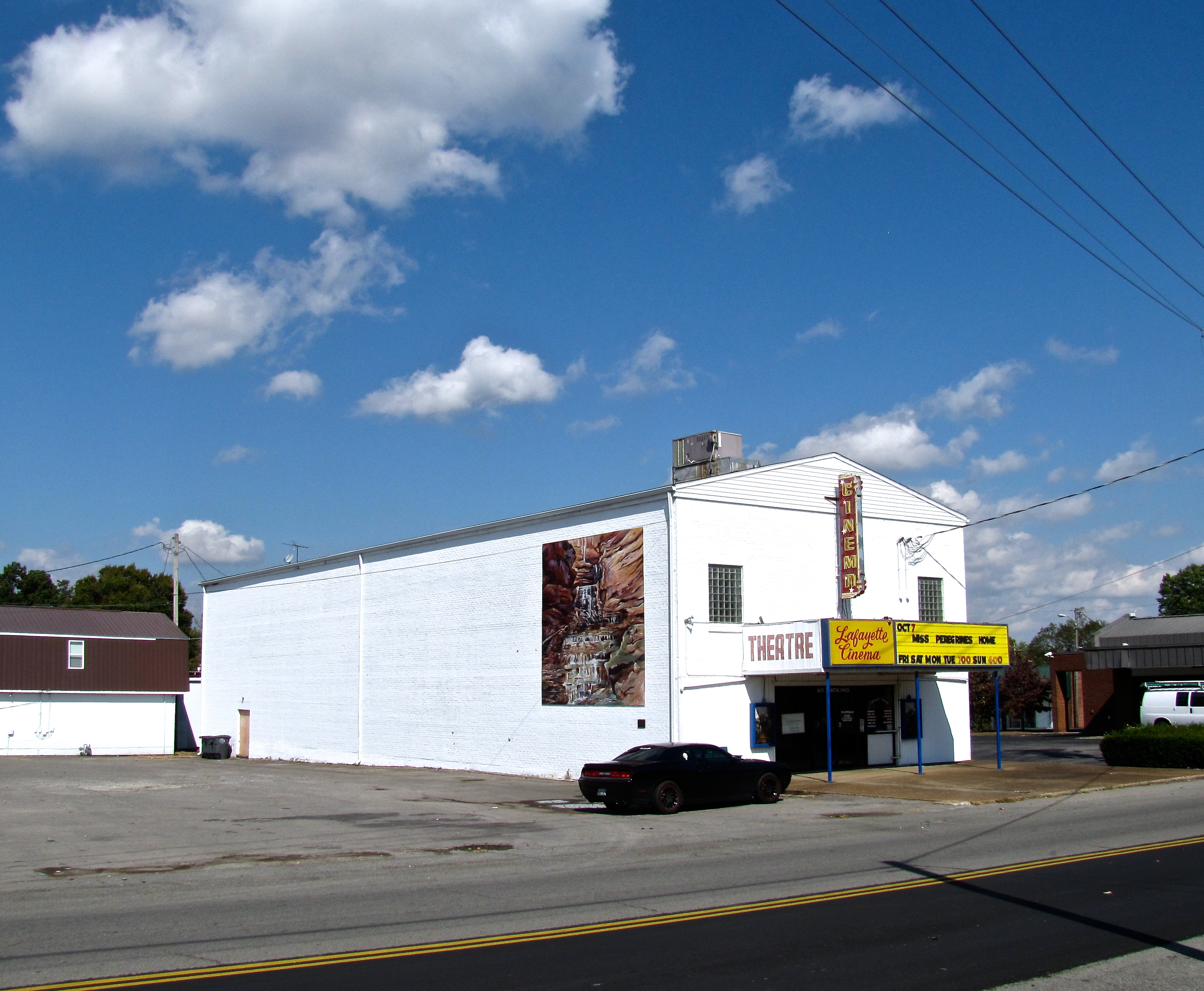 The Lafayette Cinema in Lafayette, Tennessee, United States.